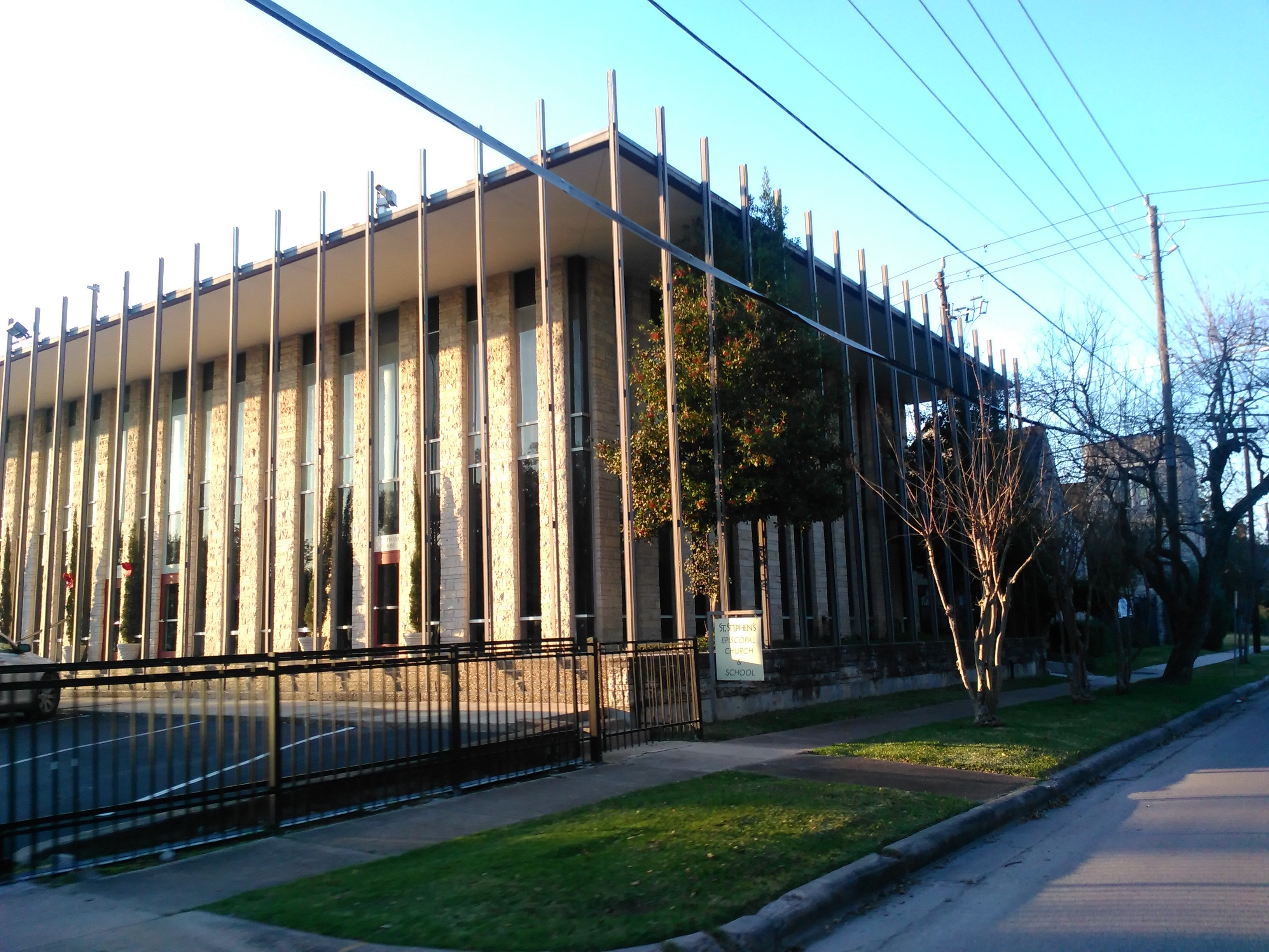 St. Stephens Episcopal Church and School Houston